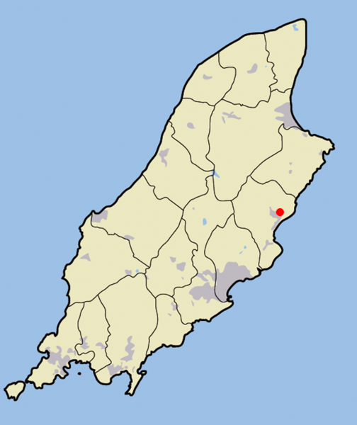 Location of Laxey on the Isle of Man Gaelg: Boayl Laksaa ayns Mannin .